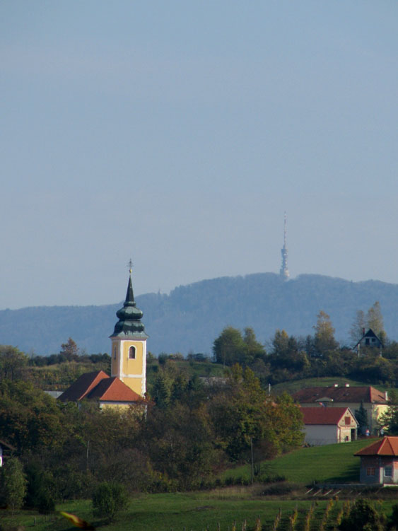 Church in Marija Gorica Municipality, Zagreb County, Croatia.